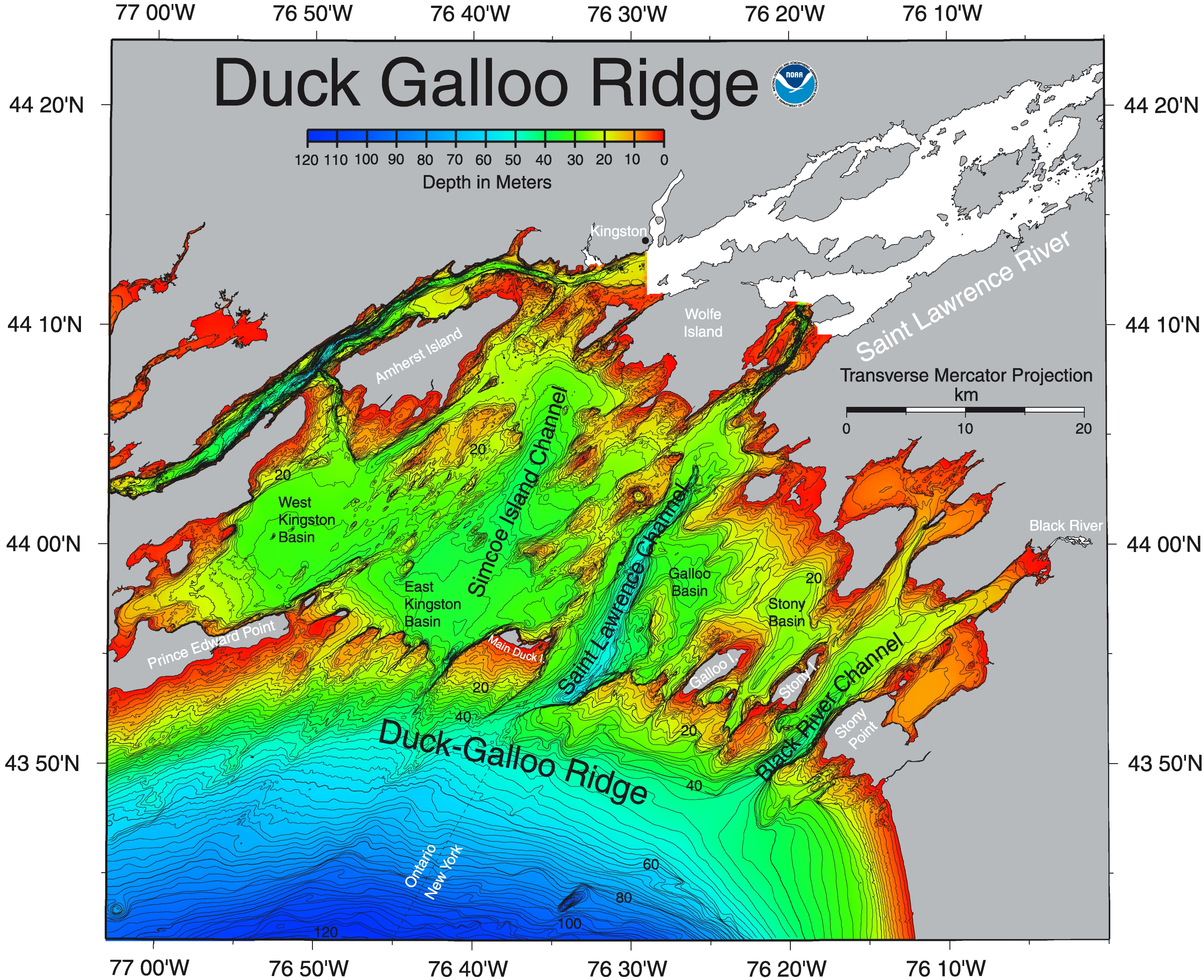 This NOAA map of Duck Galloo Ridge shows the Northeast corner of Lake Ontario. As lakes go Lake Ontario is relatively deep. The portion north of this ridge is significantly less deep.